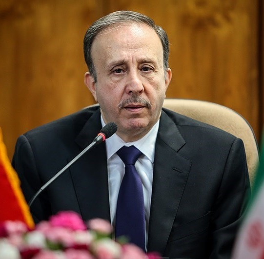 Mohammad Jihad al-Laham, Speaker of Syrian People's Council in meeting with Iran's Center of Strategic Researches president, Ali Akbar Velayati